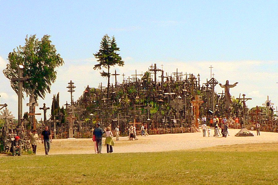 Hill of Crosses near Šiauliai, Lithuania